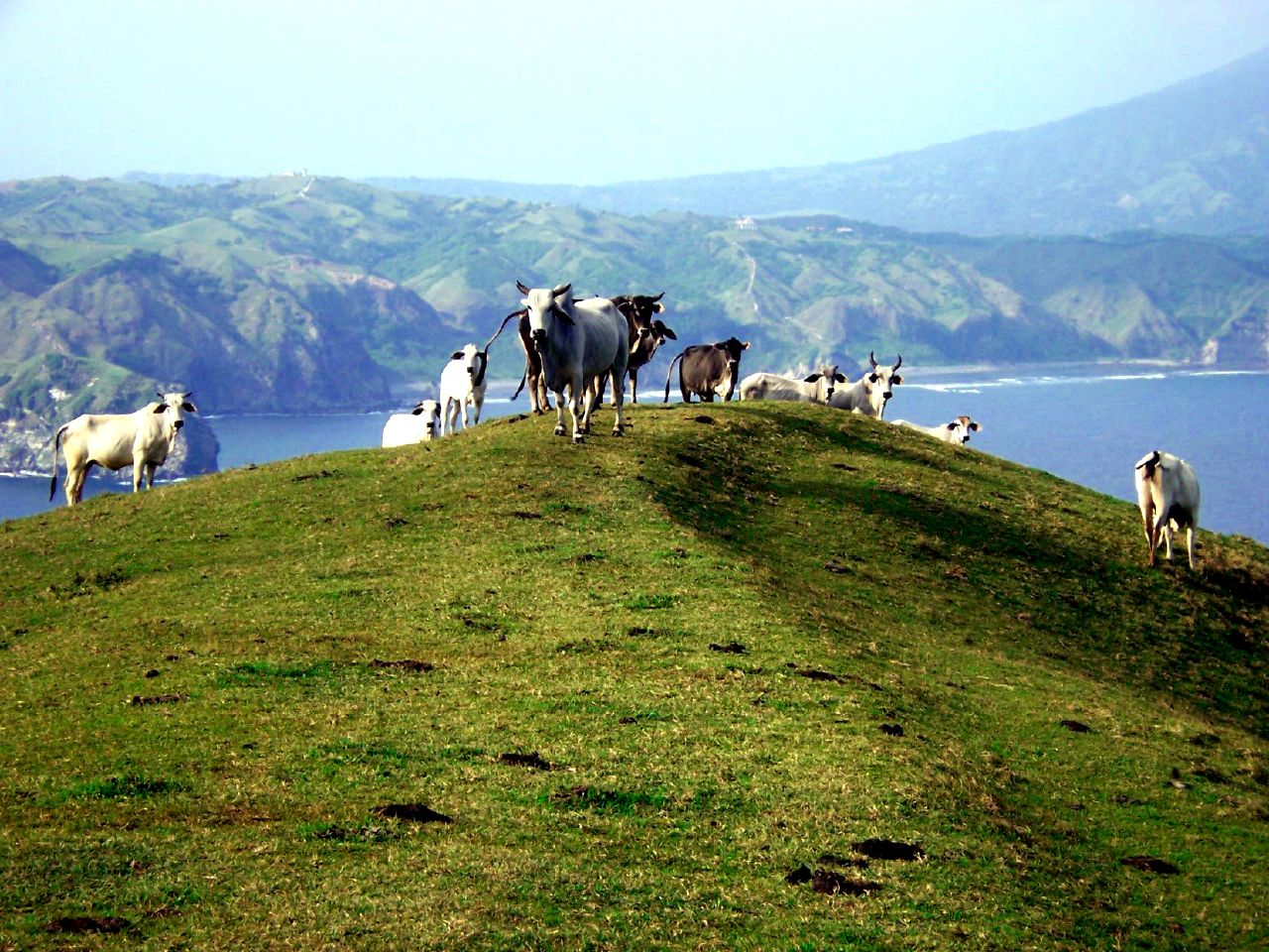 Cows roaming in the green hills in Batanes, Philippines